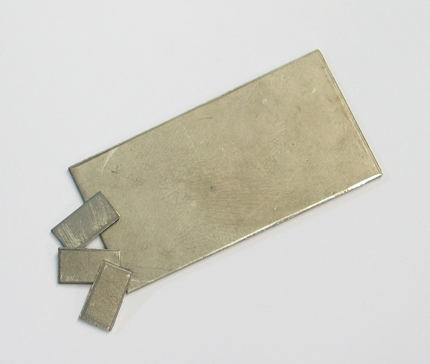 Niobium metal foil (thickness 1mm).